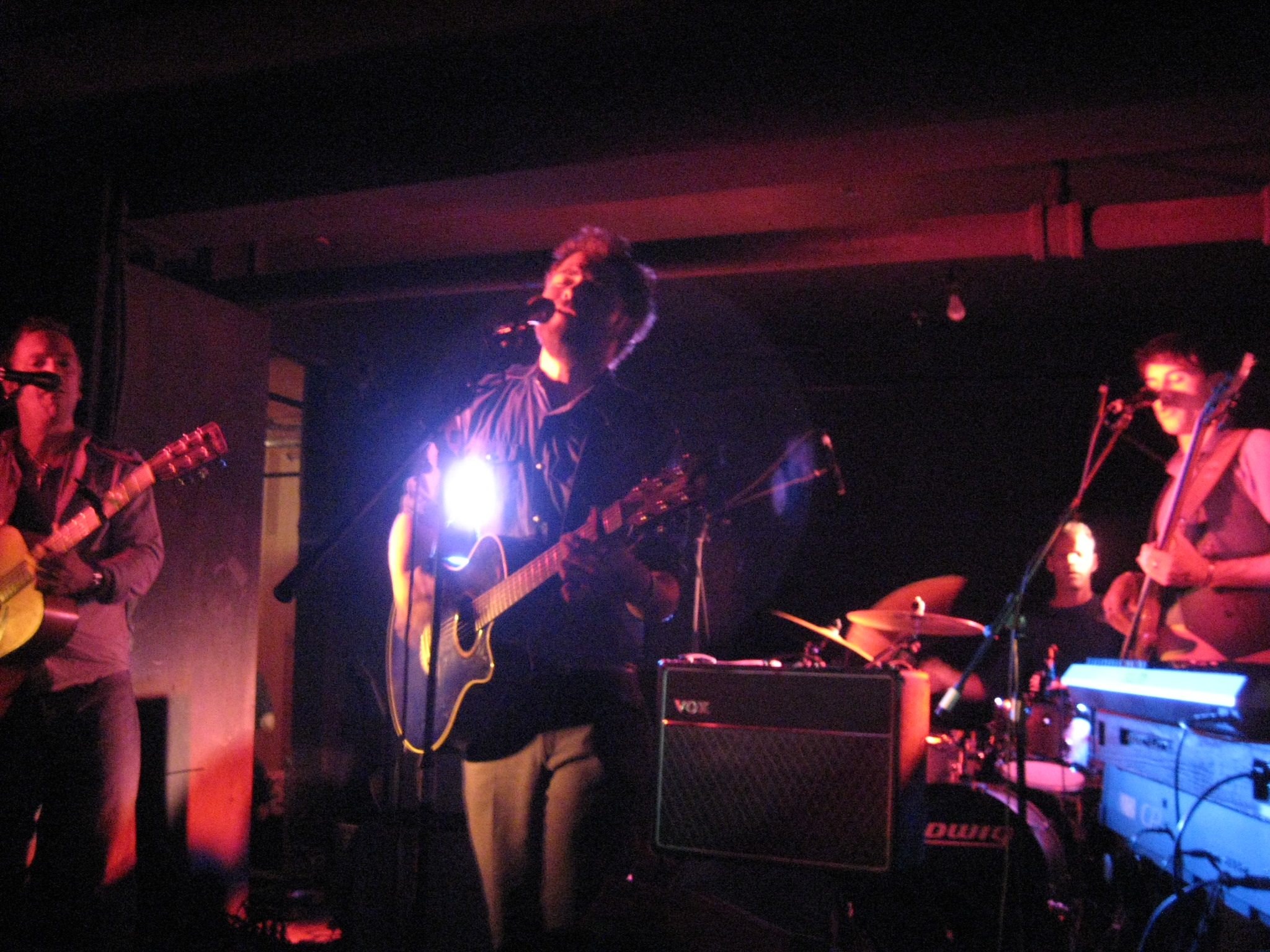 Passenger (band) playing The Studio at Webster Hall, New York City, Oct 23, 2008